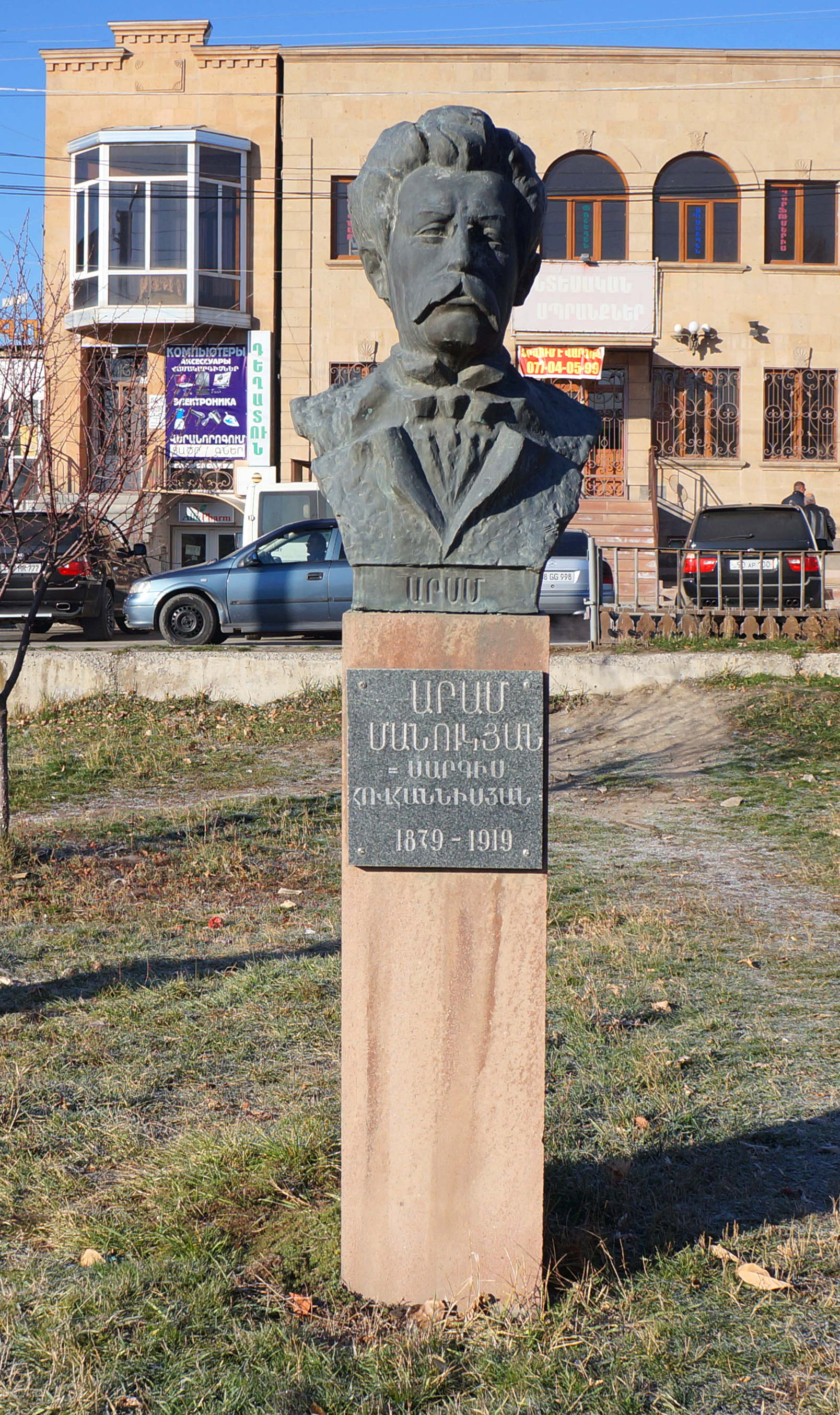 Aram Manukyan (Armenian revolutionary, statesman) statue in Victory Park, Gyumri, Armenia